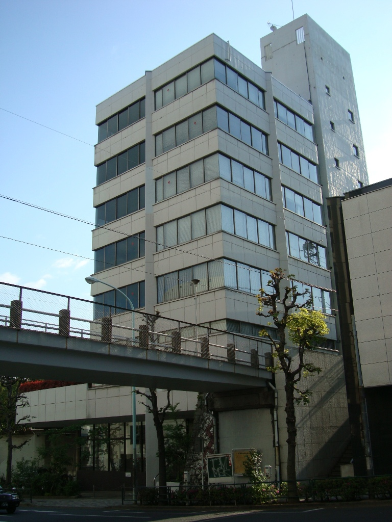 The JIA Kaikan building, Harajuku, Tokyo